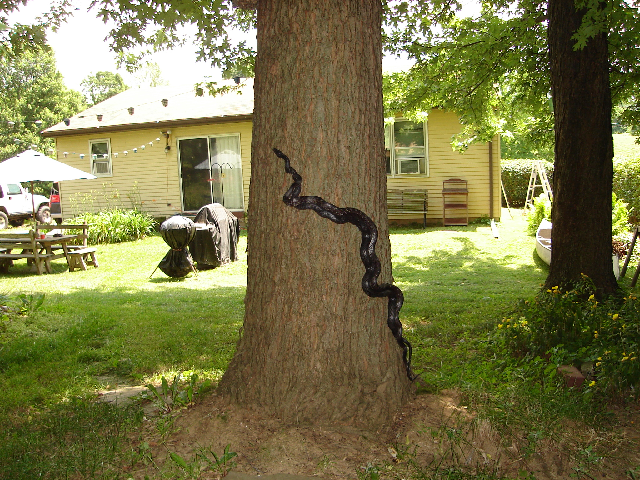 Black Rat Snakes mating in a Pennsylvania backyard